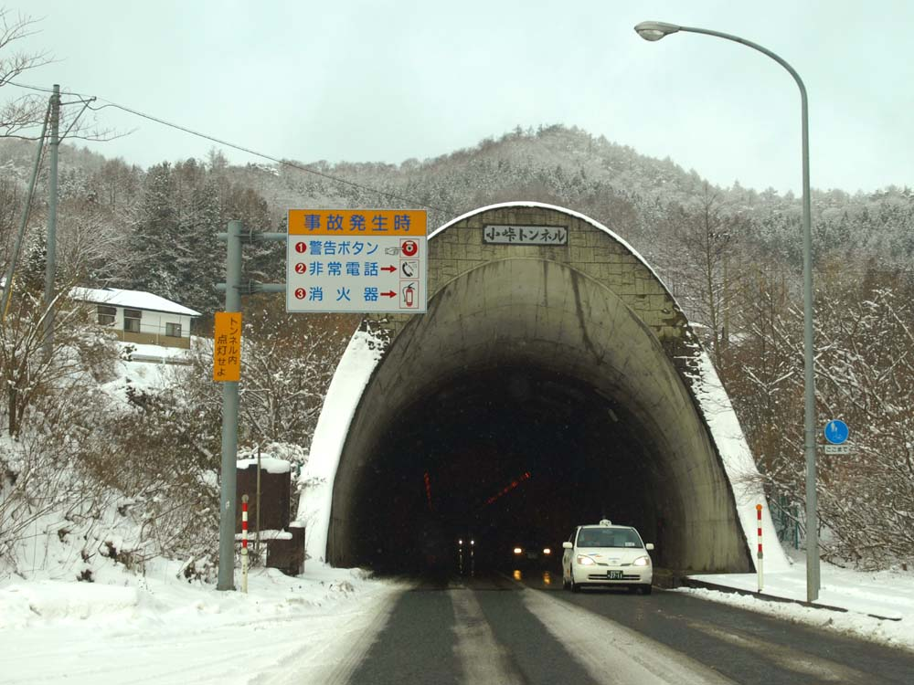 The southern entrance to Kotoge Tunnel on Route Route 396 in Tono City, Iwate Prefecture, Japan.